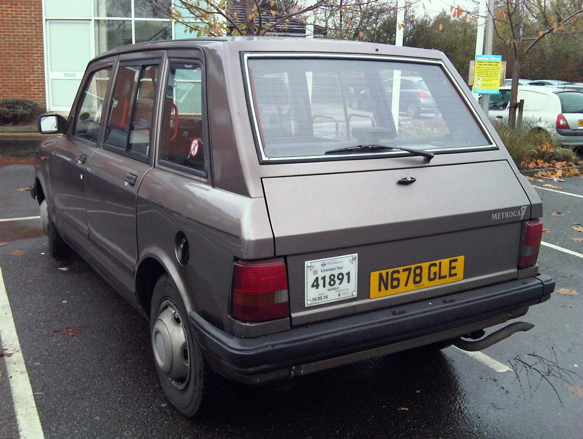 Metrocab Date of First Registration: 01 Oct 1995 The Metrocab design was based on models and early work for the Beardmore Mark VIII by Metro-Cammell-Weymann in conjunction with the London General Cab Company. - MCW Prototypes Two of three developmental protoypes survive today, "Edgar" POE 629R, and UOK 729H which actually worked as a taxi in the in London in the General's fleet. - MCW Metrocab Introduced in 1987, this fibreglass-bodied cab was powered by a 2.5 litre- four cylinder Ford Transit direct injection diesel engine coupled to a Ford four-speed automatic or a five- speed manual gearbox. It was the first London cab to fully wheelchair accessible and to be licensed by the Public Carriage Office to carry four passengers. - Reliant Metrocab Reliant bought the Metrocab from MCW in 1989, and moved the plant to Tamworth, Staffordshire. - Hooper Metrocab When Reliant suffered financial trouble, Hooper bought Metrocab and began a steady programme of improvement. In late 1992 the Metrocab became the first London cab to be fitted with disc brakes as standard. Six- and seven seat versions followed. The restyled Series II was introduced in 1997 and featured a great many detail improvements. In 2000 a turbocharged Toyota engine replaced the Ford in the TTT model.